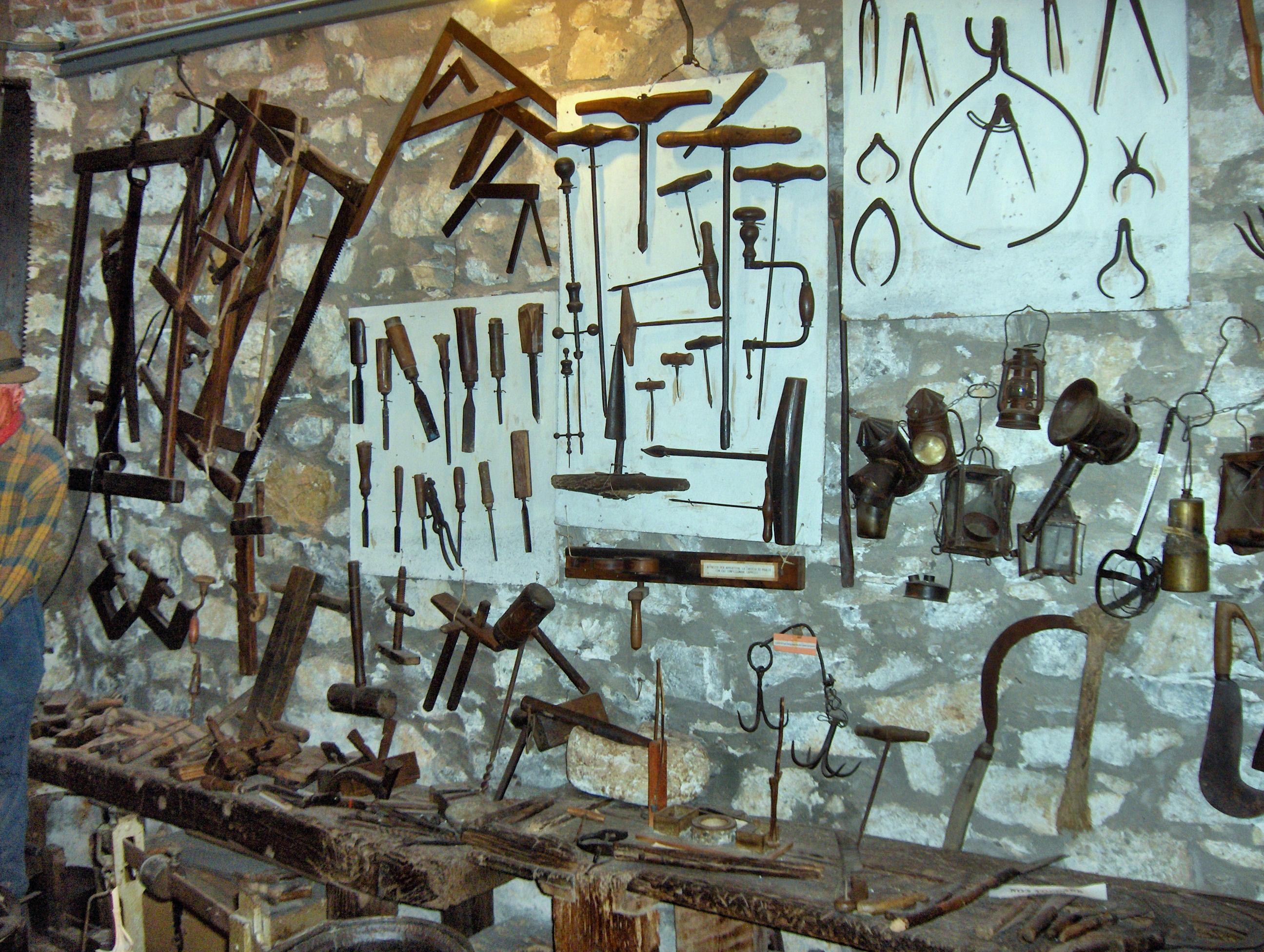 Traditional carpenter's implements; Ethnographic Museum of Western Liguria, Cervo, Flower Riviera, Italy